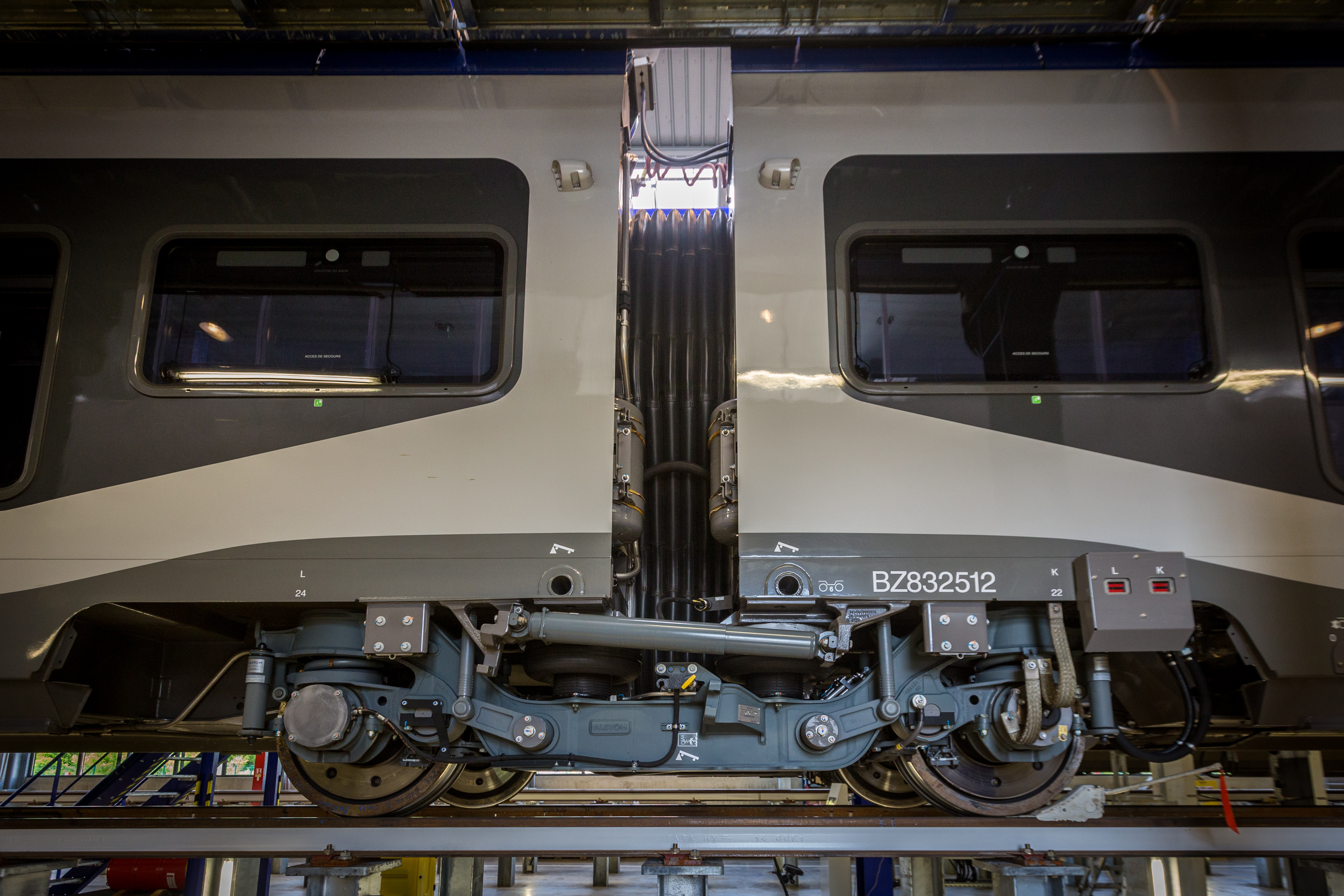 Technicentre TER Alsace Mulhouse Nord 28 mai 2015